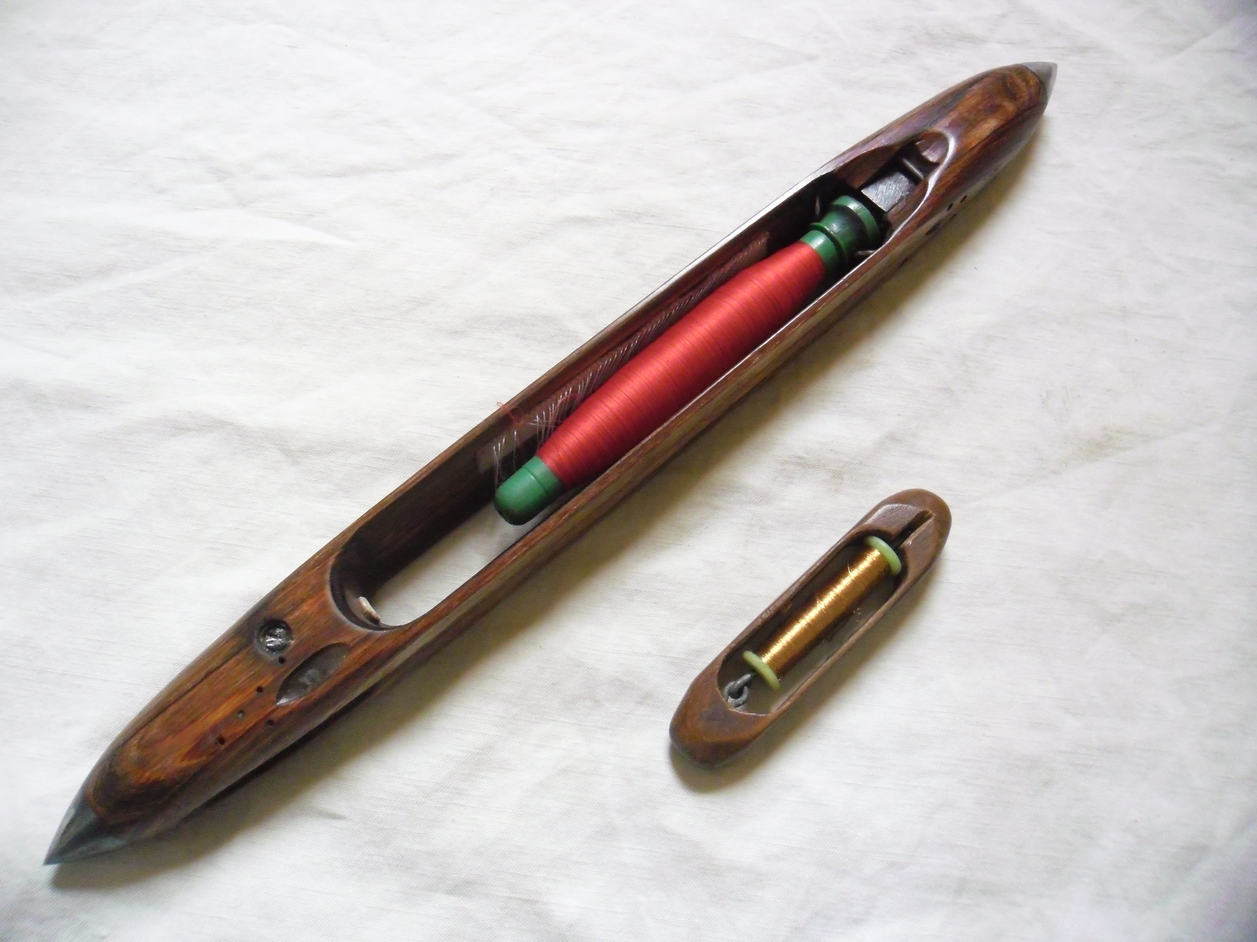 Weaving shuttles of Power loom & hand loom respectively.